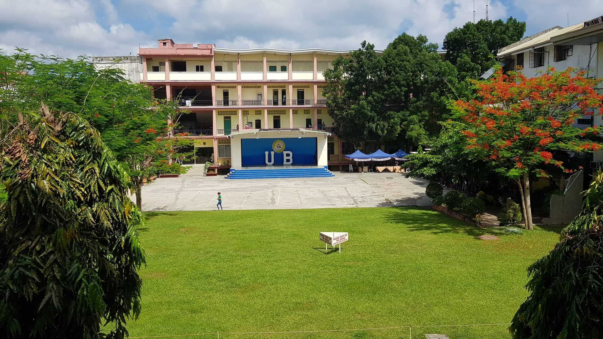 A premier university transforming lives for a great future